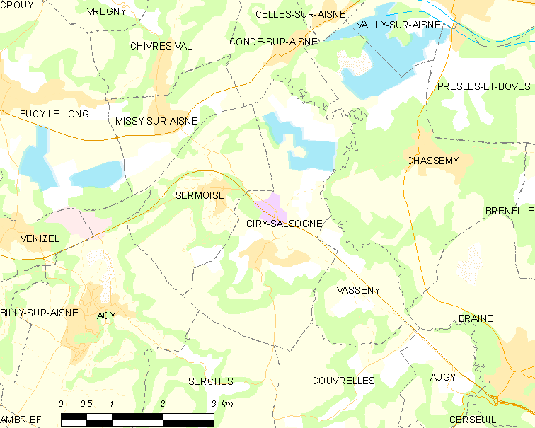 Map of French commune: Ciry-Salsogne Map commune FR insee code 02195.png